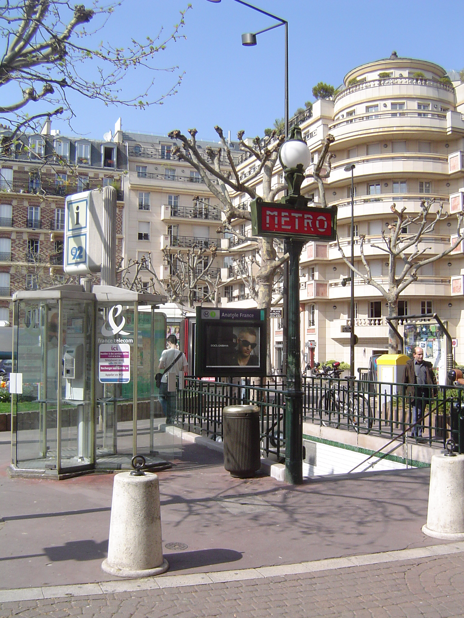 A picture of the parisian metro station "anatole france", taken saturday, april 22, 2006, on a sunny day.)